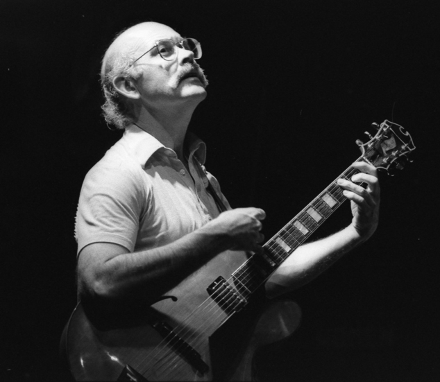 Jim Hall at Keystone Korner, San Francisco 10/29/80. Photo by Brian McMillen /